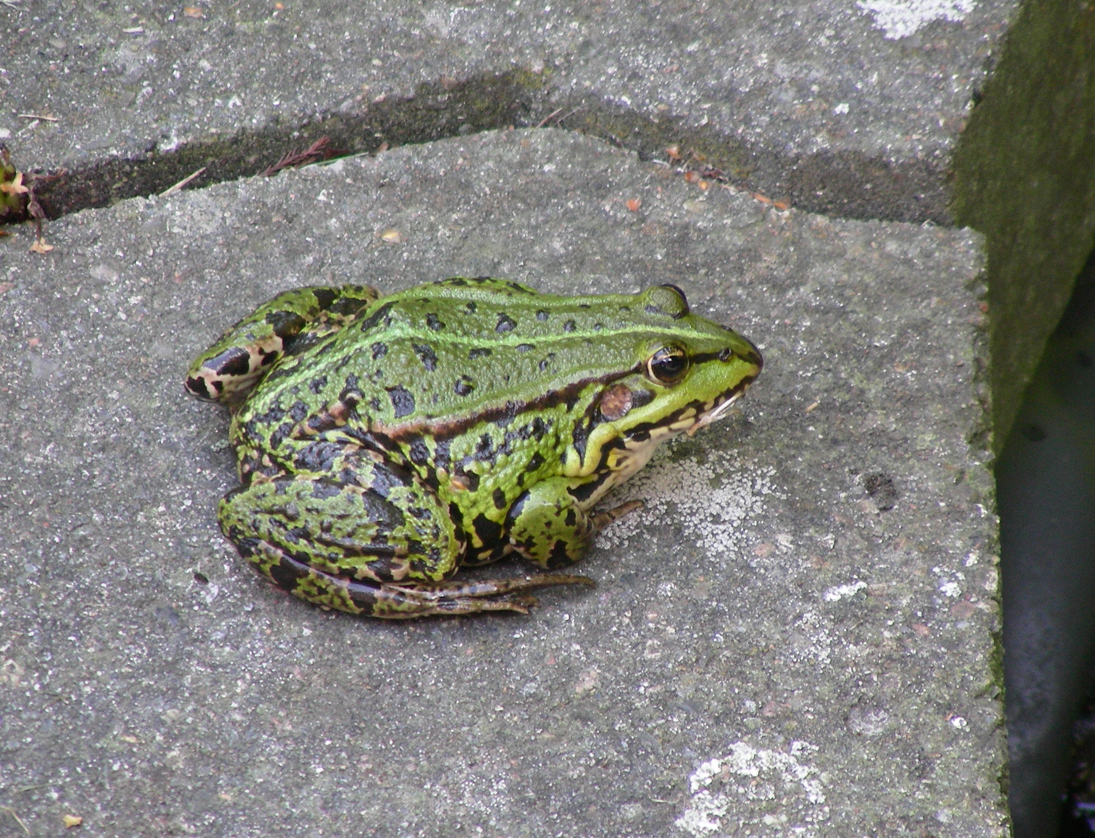 Rana esculenta, photographed in a garden at Stillinge Strand, Denmark.